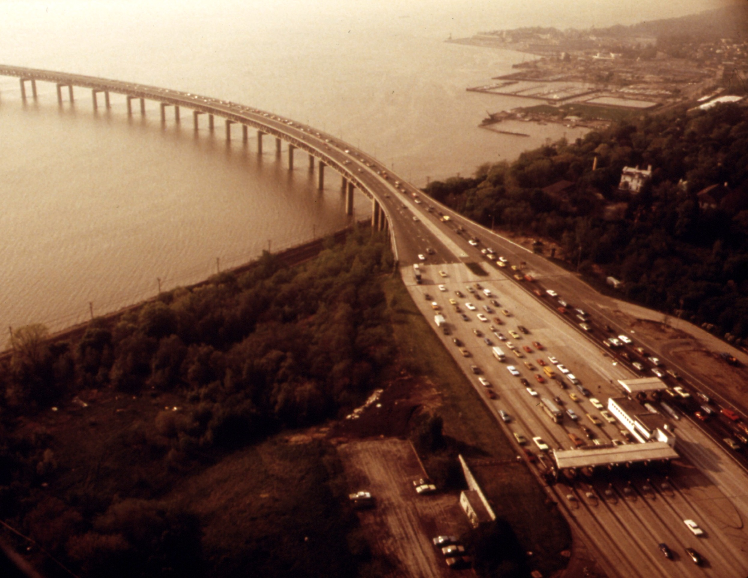 Cropped and slightly color-corrected version of File:ENTRANCE TO THE TAPPAN ZEE BRIDGE ON THE HUDSON RIVER - NARA - 548401.jpg